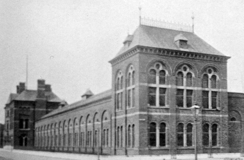 Photograph of Barrow Flax & Jute mill published in North Lonsdale Magazine, Vol 3, 1898-99, p. 155. Since demolished